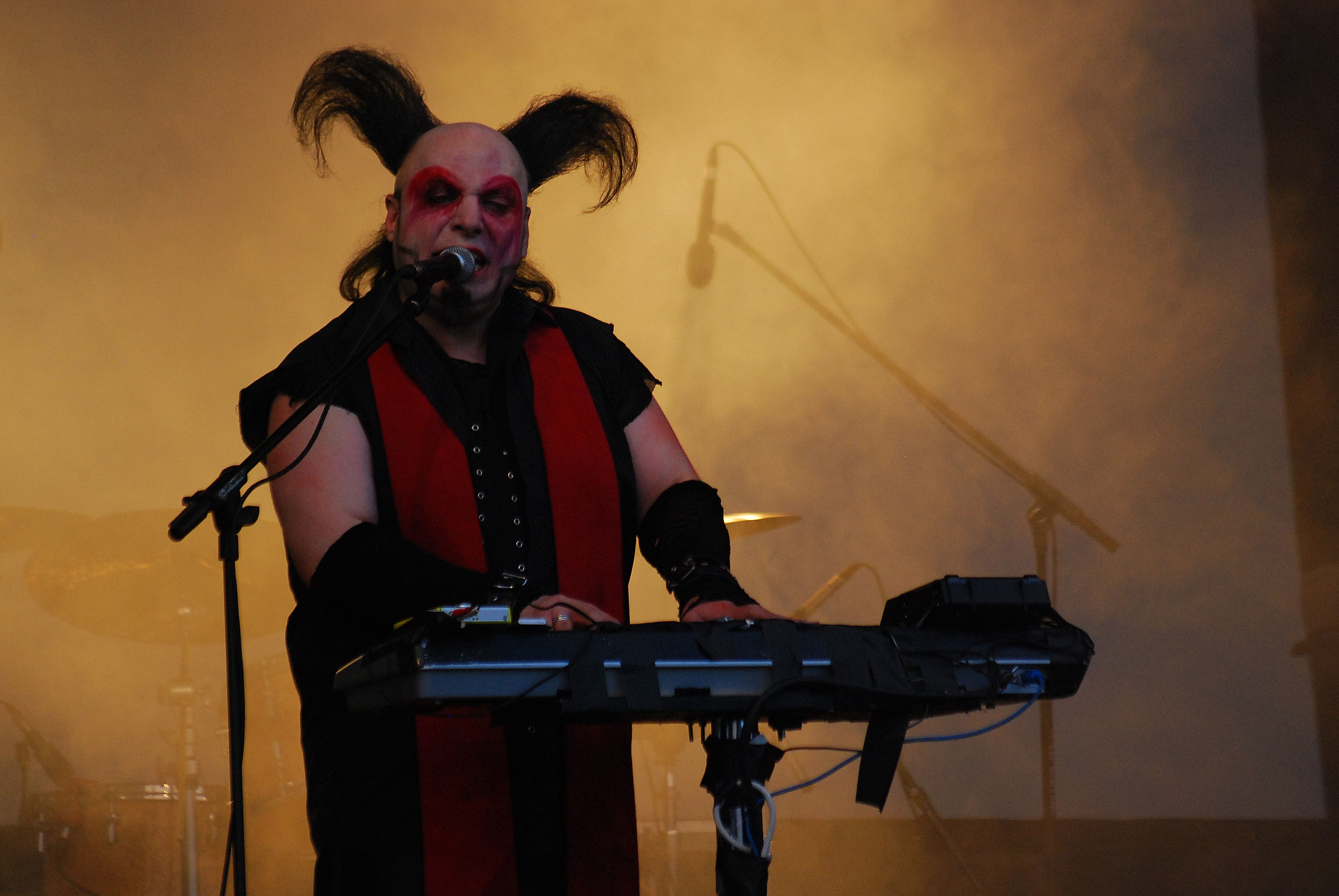 Taking of this photo was in cooperation with wRacku Festiwal